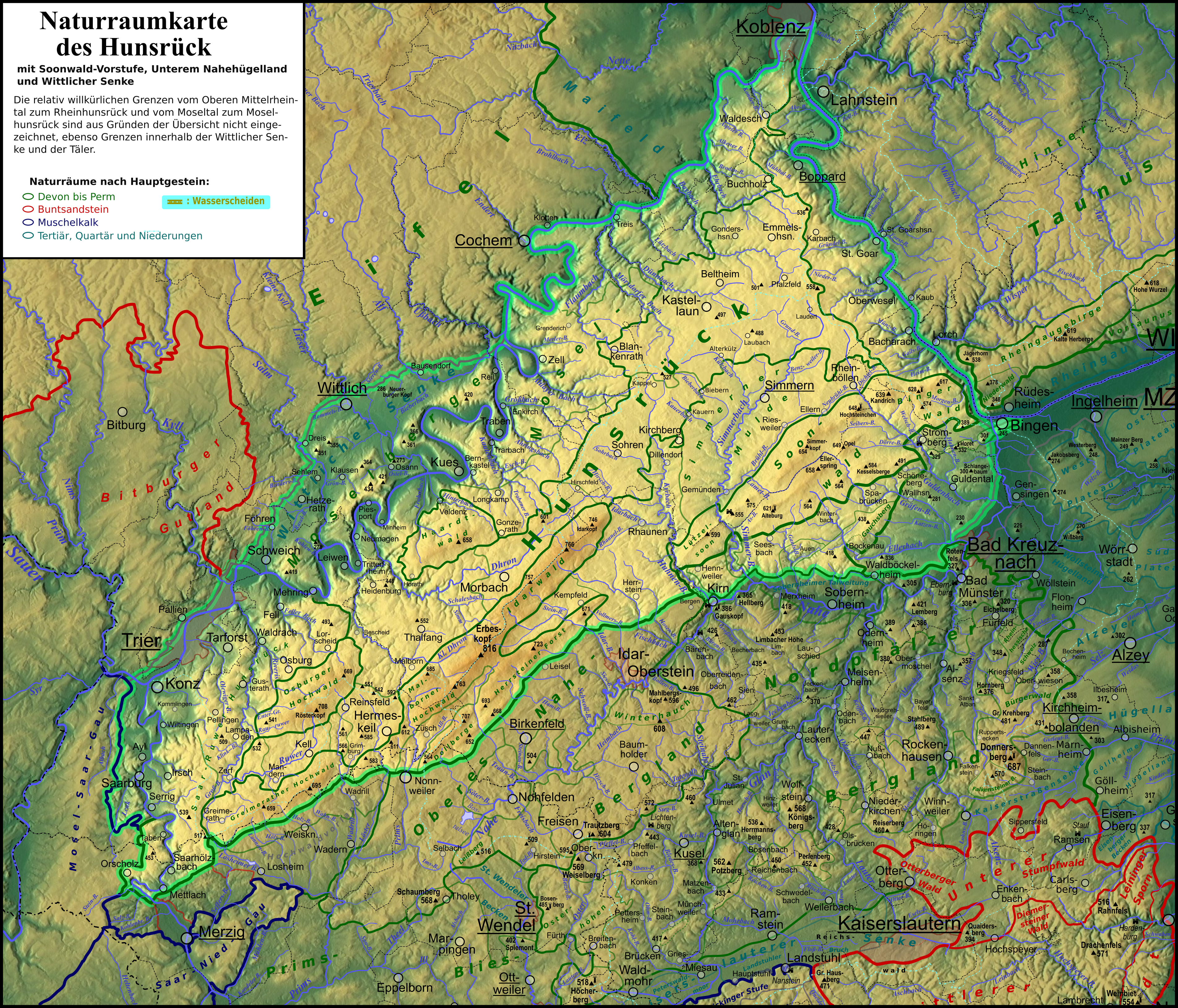 Map of natural regions of the Hunsrück